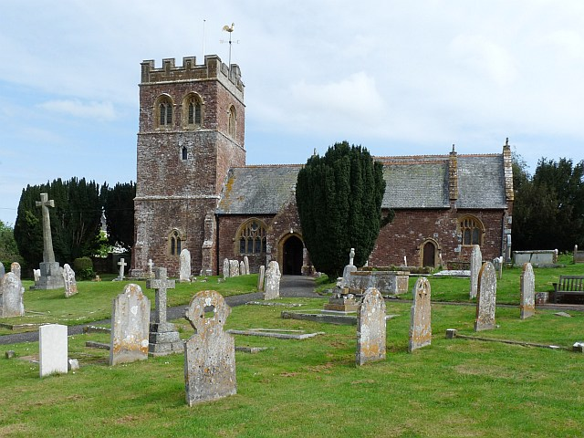 Clyst Honiton Church Dedicated to St Michael and All Angels. Restored in 1876.